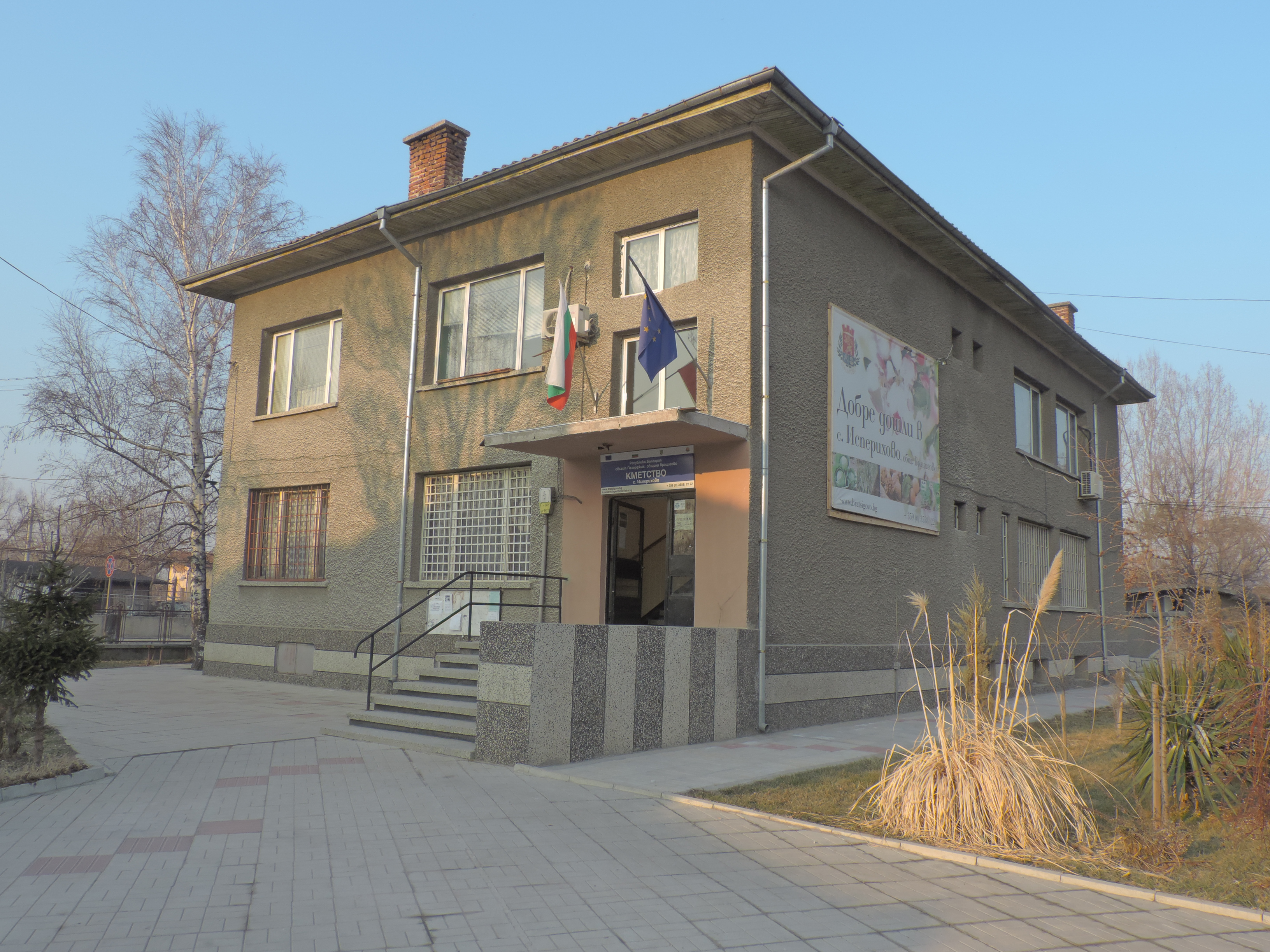 The mayor's office in village Isperihovo, Bratsigovo Municipality, Pazardzhik Province, Bulgaria.